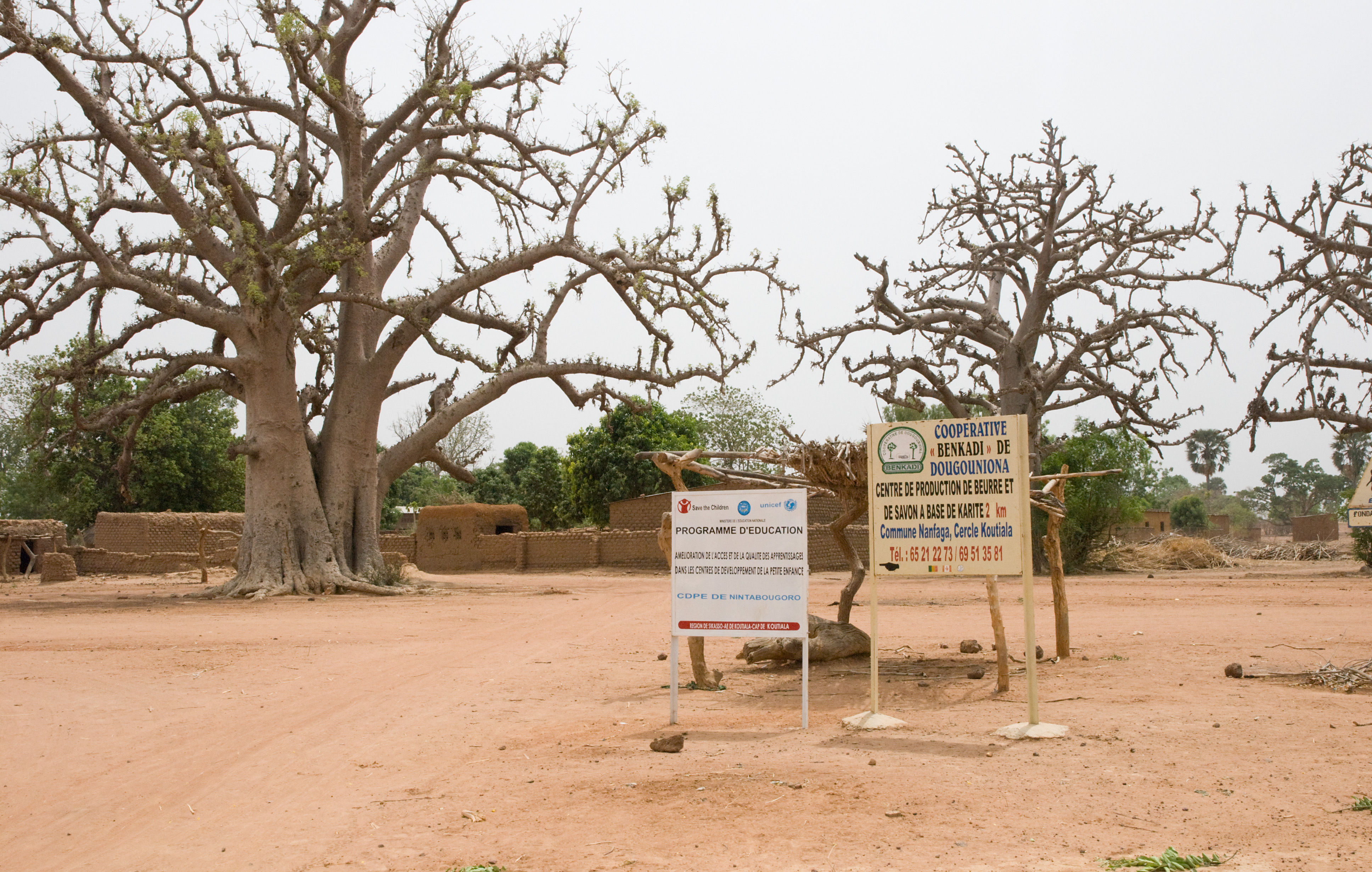 Village scene with info boards and baobab or kapok trees at Nintabougoro (Nafanga Commune, Koutiala Cercle, Sikasso Region), Mali (April 2015)